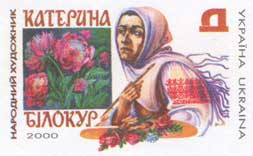 Stamp of Ukraine